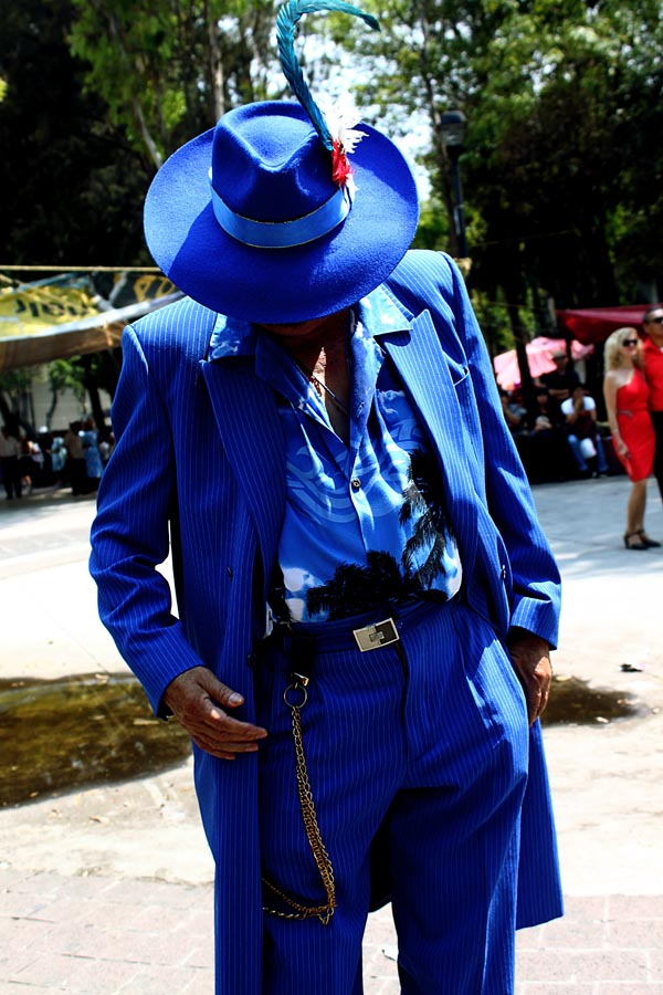 Pachuco style Photo taken May 18, 2013